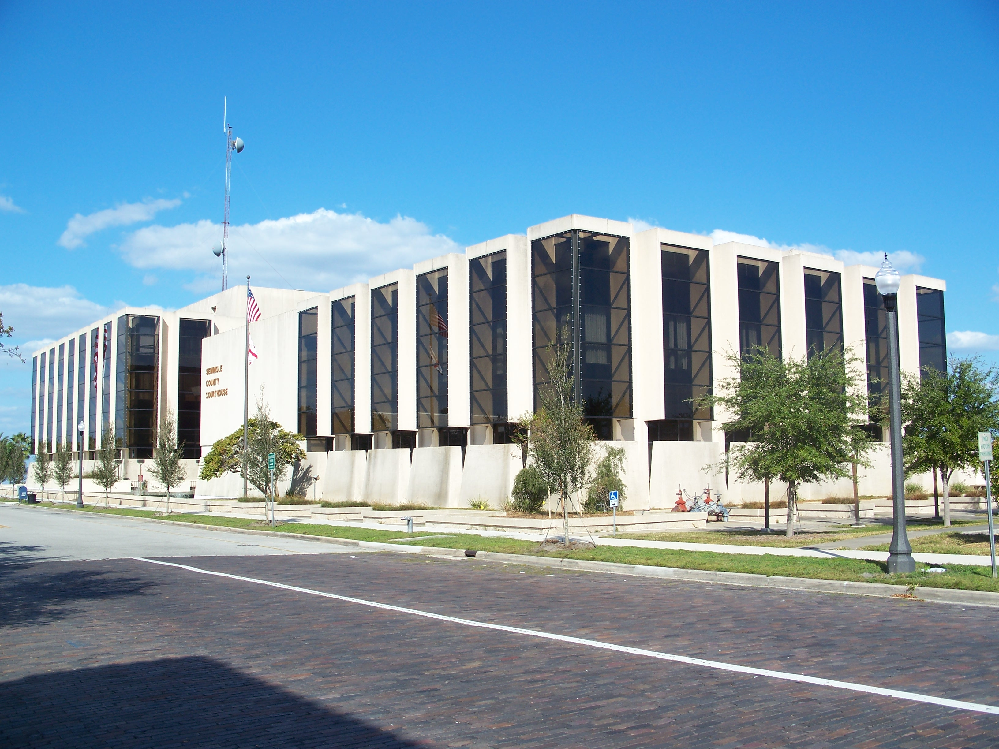 Sanford, Florida: County courthouse